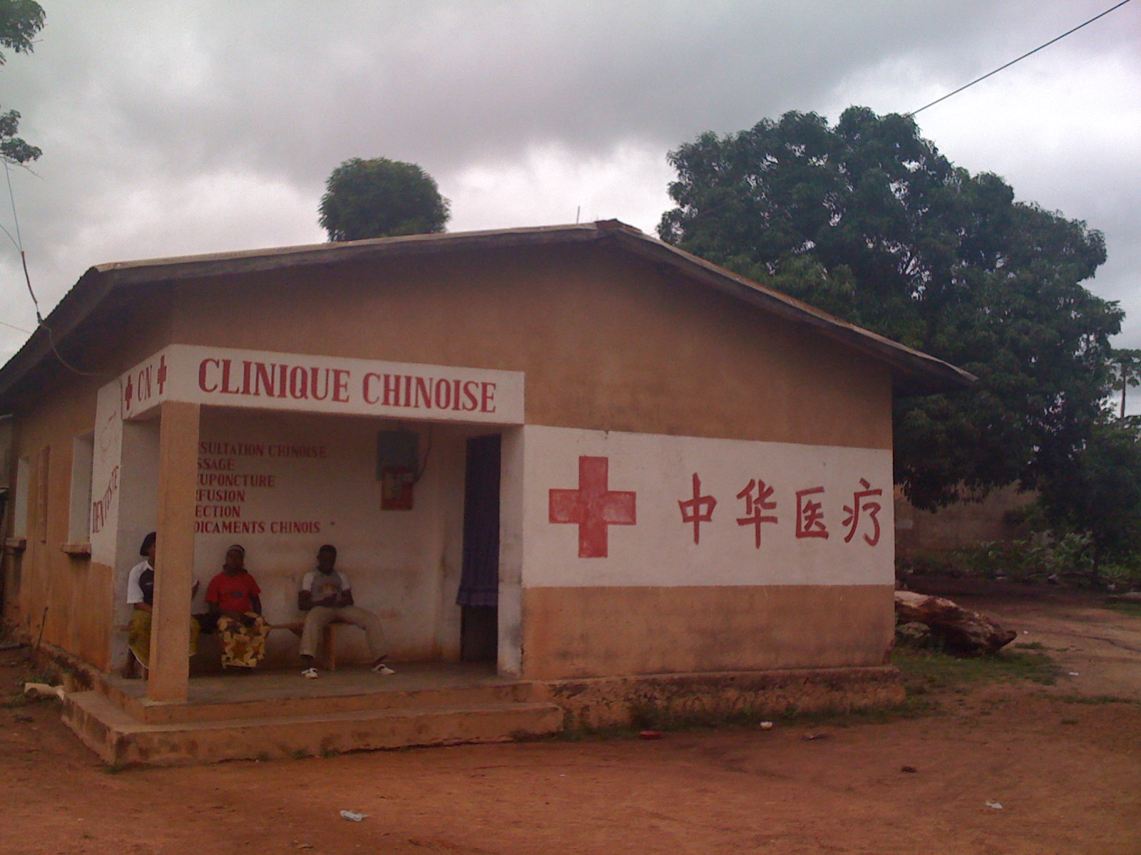 A Chinese clinic offering traditional Chinese medicine, located at an artery road in the village of Ferkessédougou in Ivory Coast